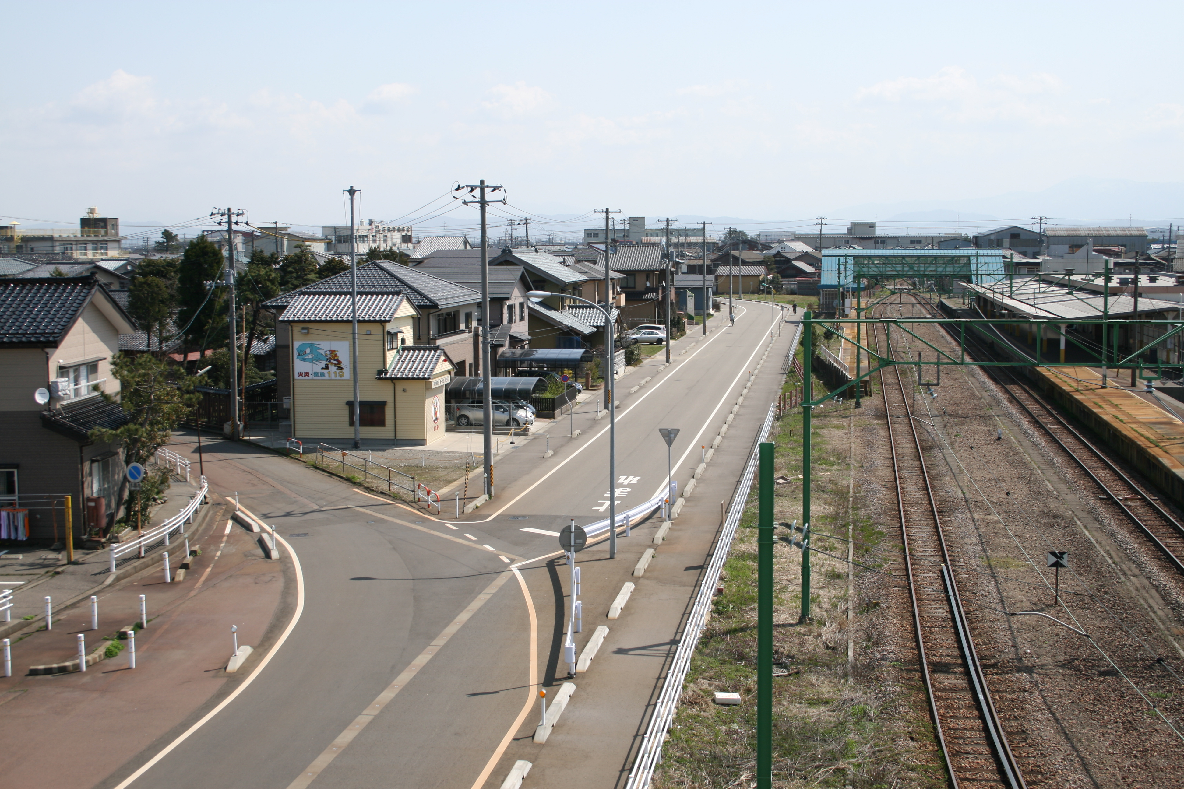 Tsubame Station in Tsubame City, Niigata Prefecture, Japan